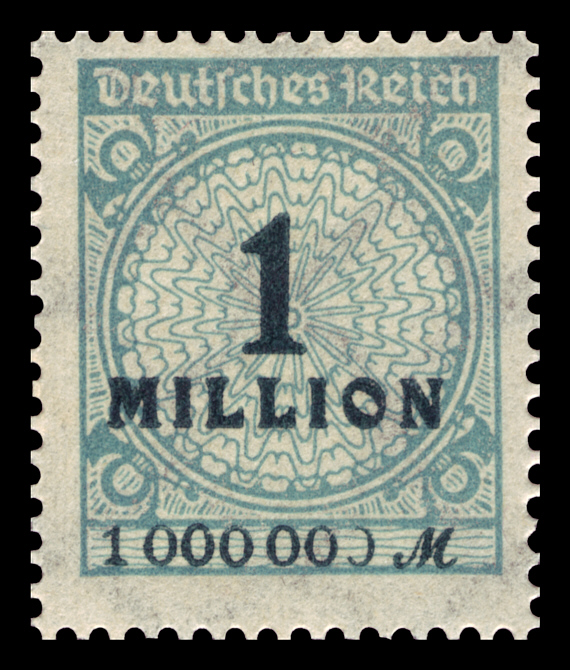 stamp series numbers in circle Ausgabepreis: 1 Million Mark Michel-Katalog-Nr: 314A (Deutsches Reich)